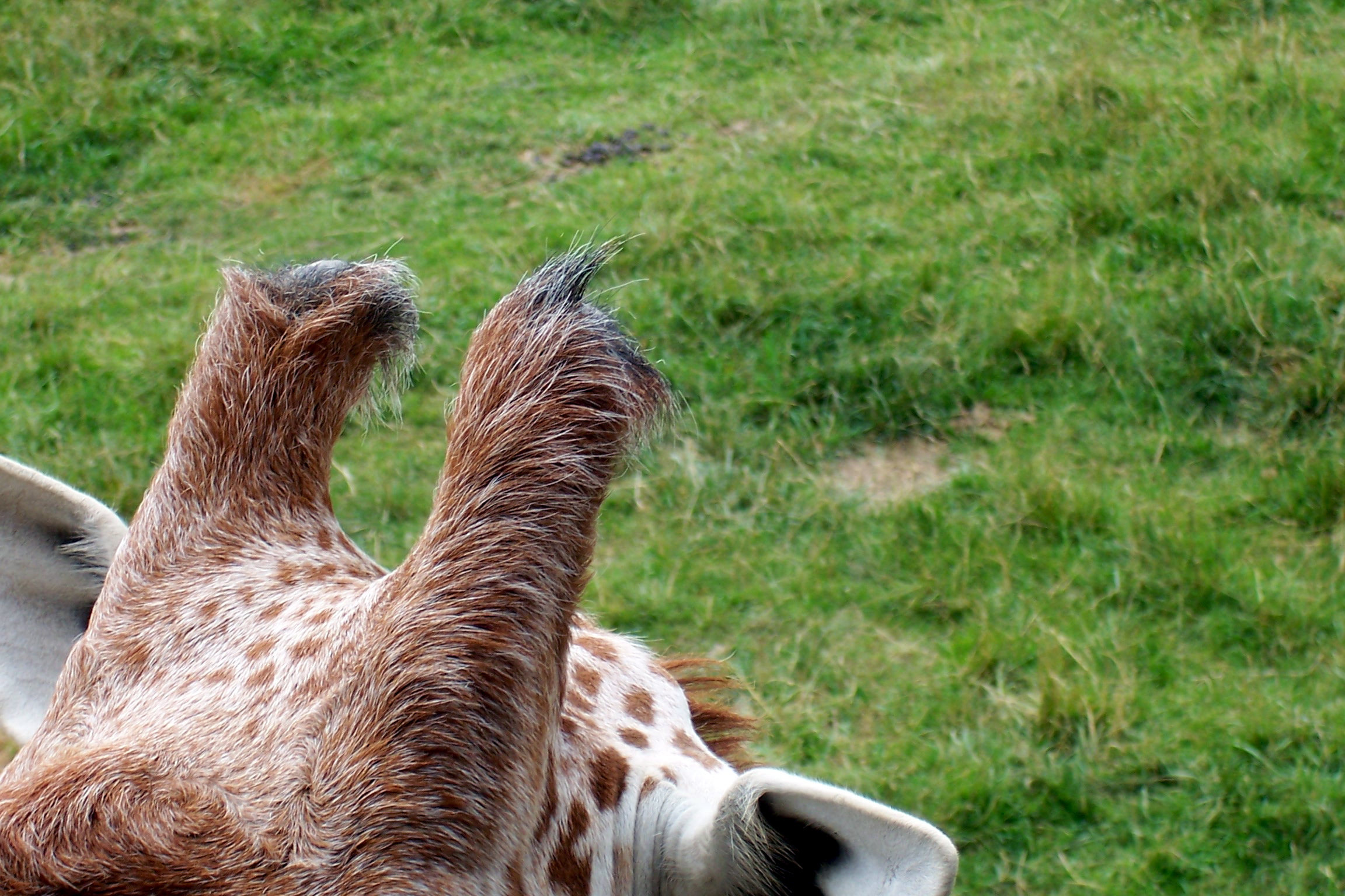 Reticulated Giraffe ossicones at Binder Park Zoo.